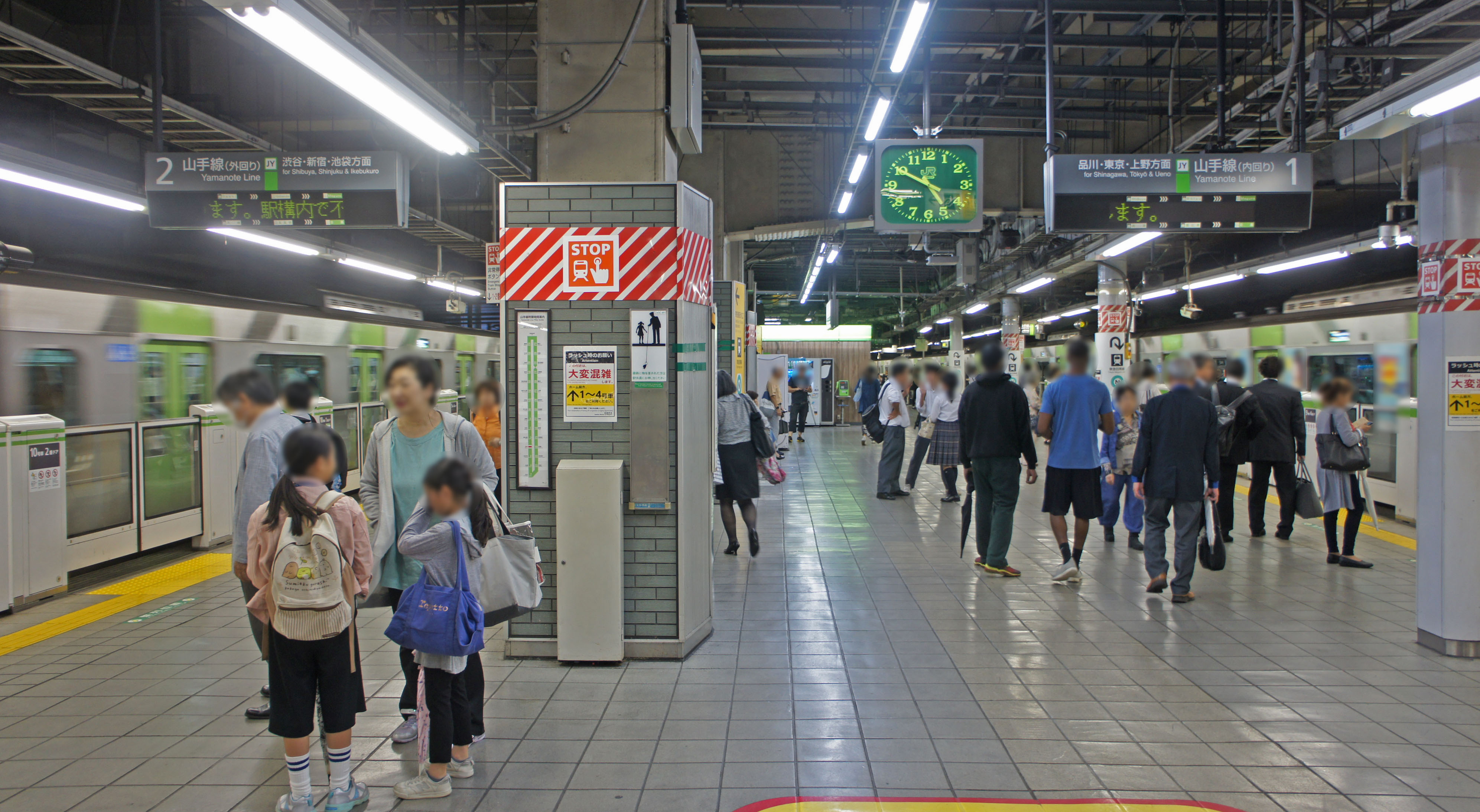 Platform of JR Yamanote-Line Meguro Station